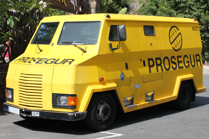 An armored "Prosegur" car used carry money or other stuff.